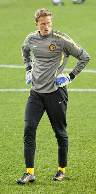 Manchester United vs MLS All Stars